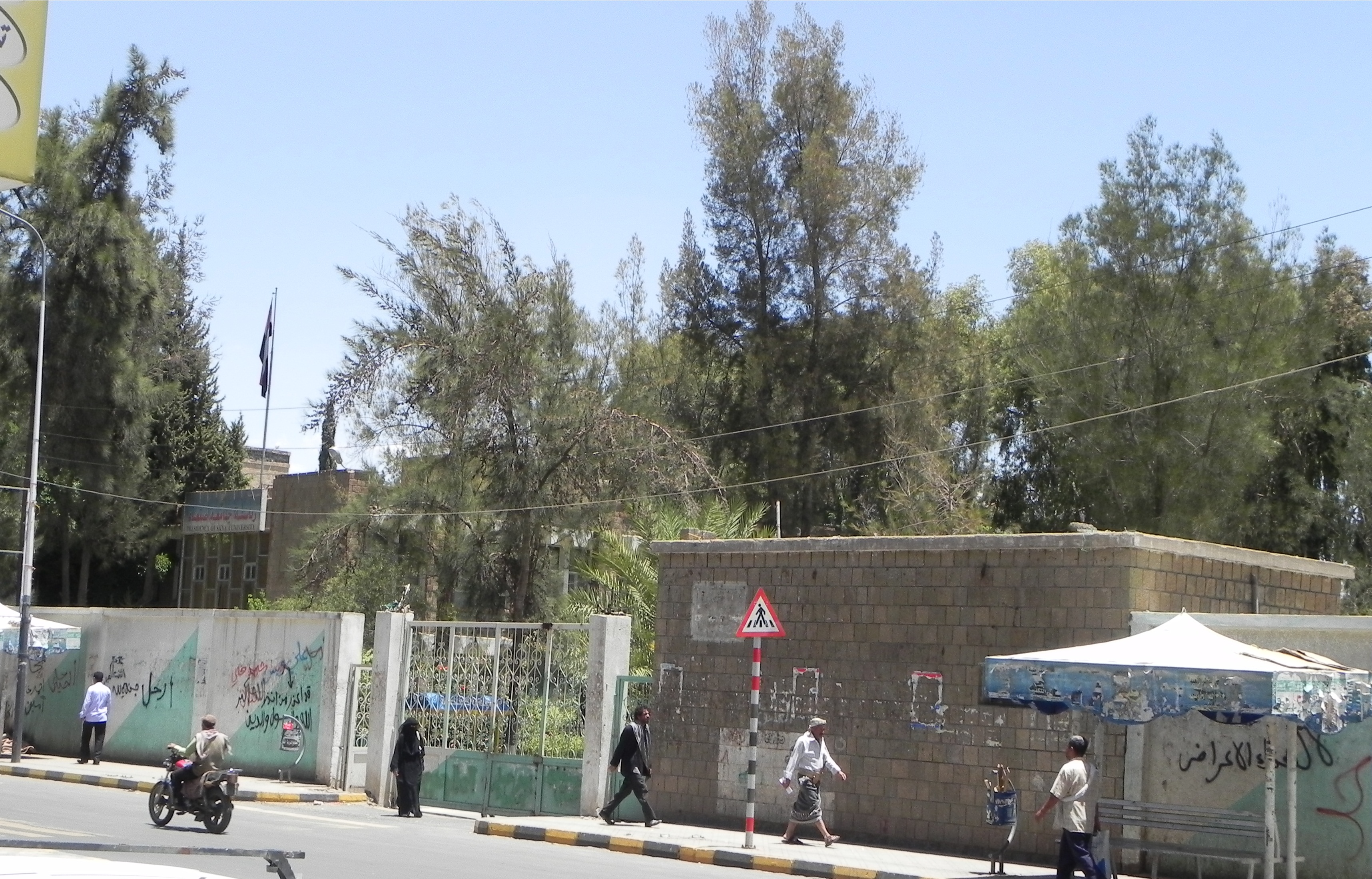 Old Sana'a University.